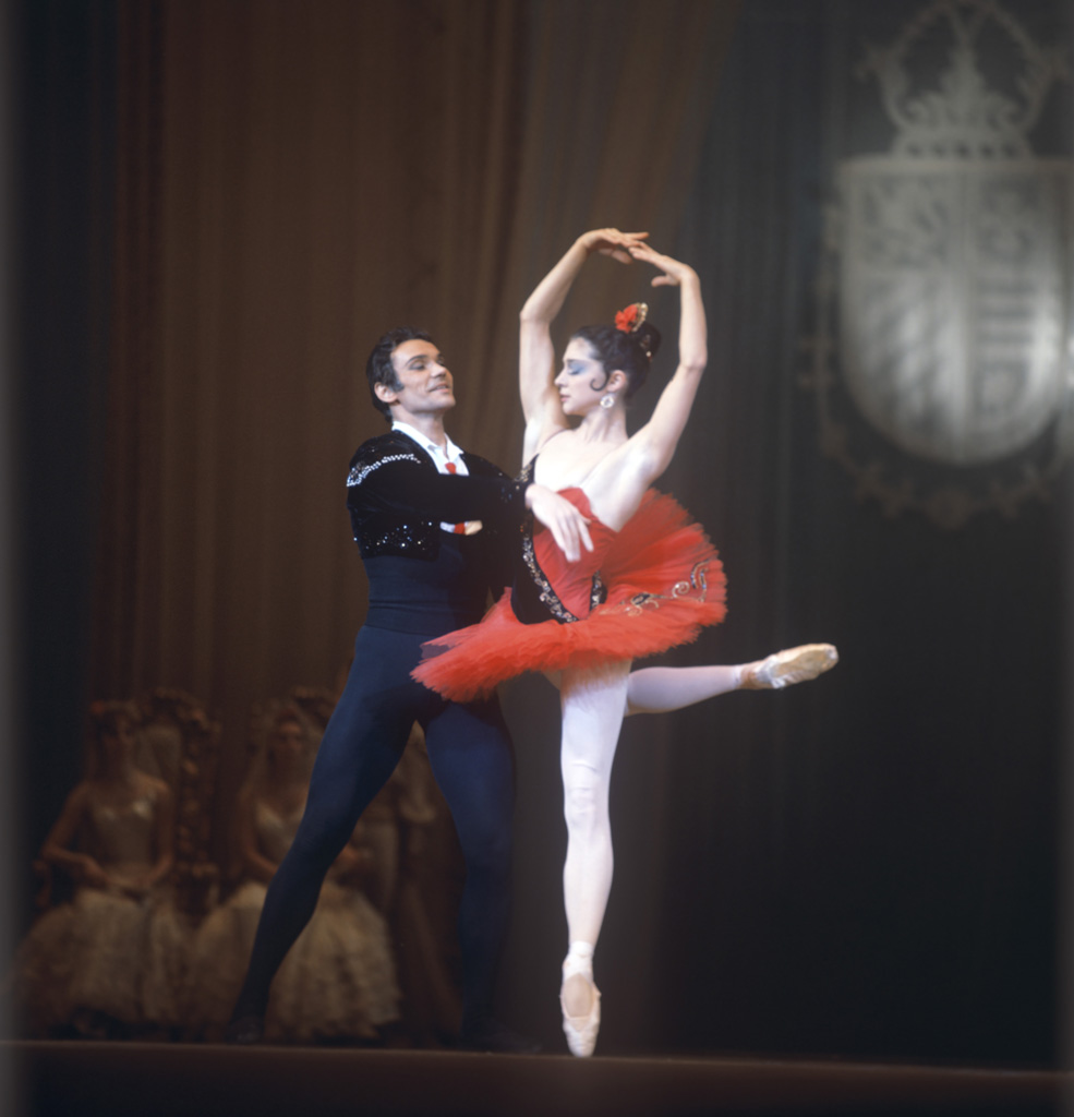 “Yekaterina Maksimova and Vladimir Vasilyev performing at Bolshoi Theater”. Yekaterina Maksimova (R) as Kitri and Vladimir Vasilyev as Basilio in a scene from Ludwig Minkus' ballet Don Quixote staged at the State Academic Bolshoi Theater of the USSR.